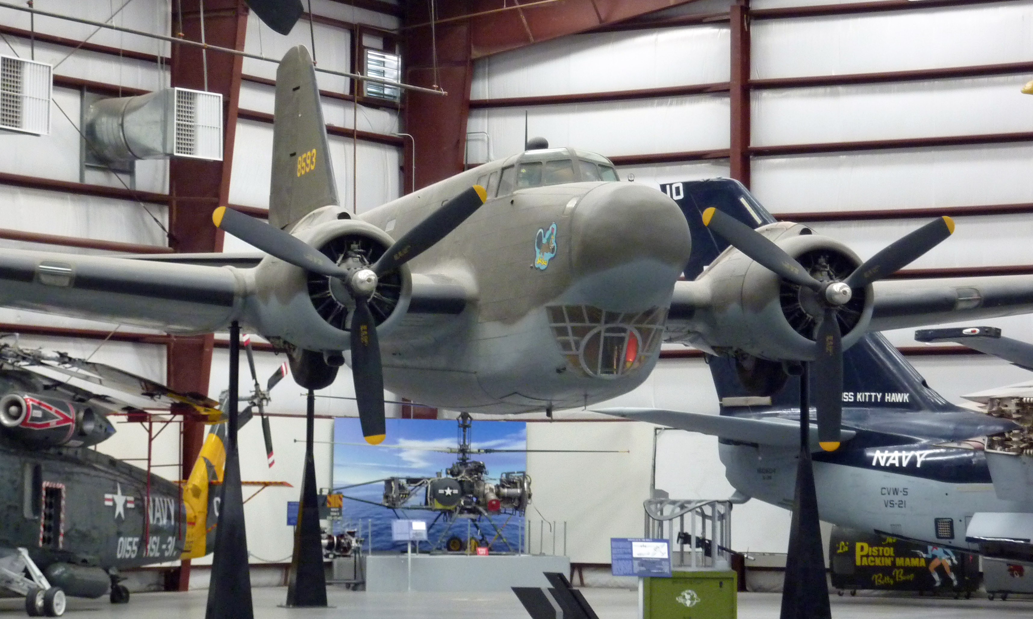 I had a chance to visit this great aviation and space museum in February 2011. This place is huge and it has a very extensive collection of airplanes - this is probably the largest collection I've ever seen in one place. Planes are stored in several hangers and also on a huge apron. If you are in the Tucson area and have any interest in aviation this is a must see stop!